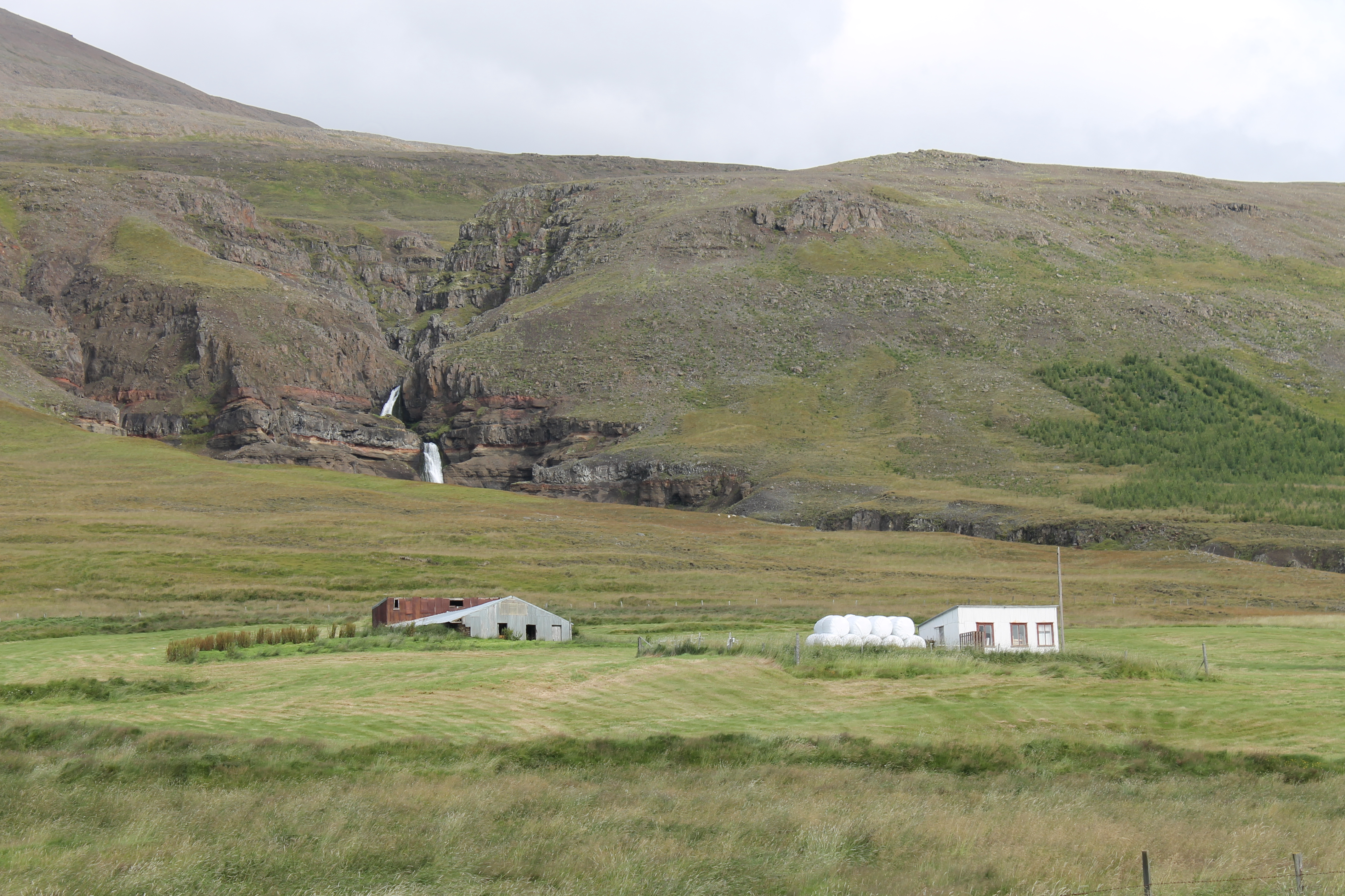 Bóla farm, Skagafjörður, Northern Iceland